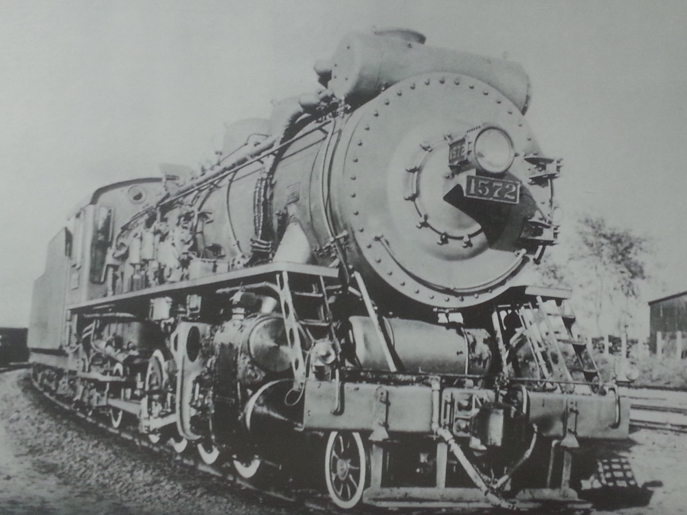 Builder's photo of South Manchuria Railway Mikako1572.